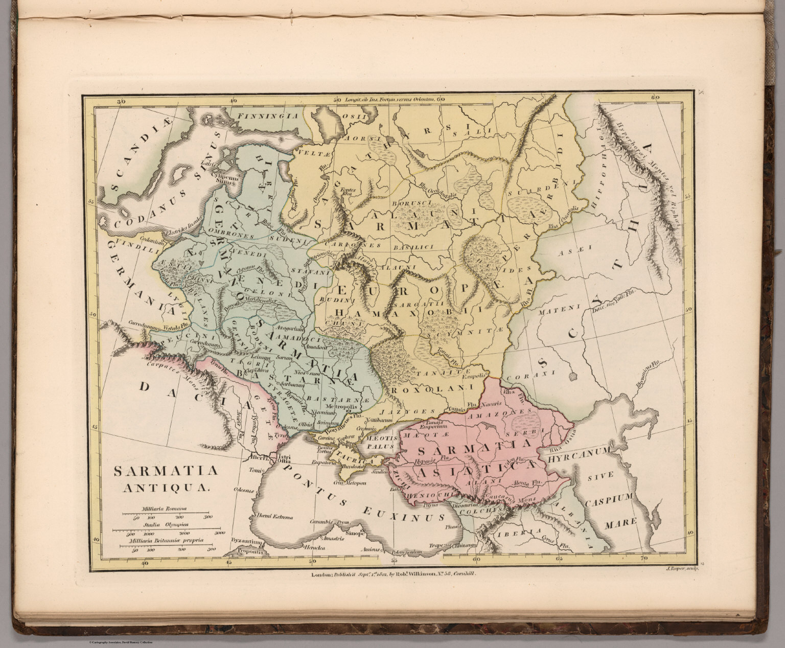 Map of Ancient Sarmatia (Sarmatia Antiqua).